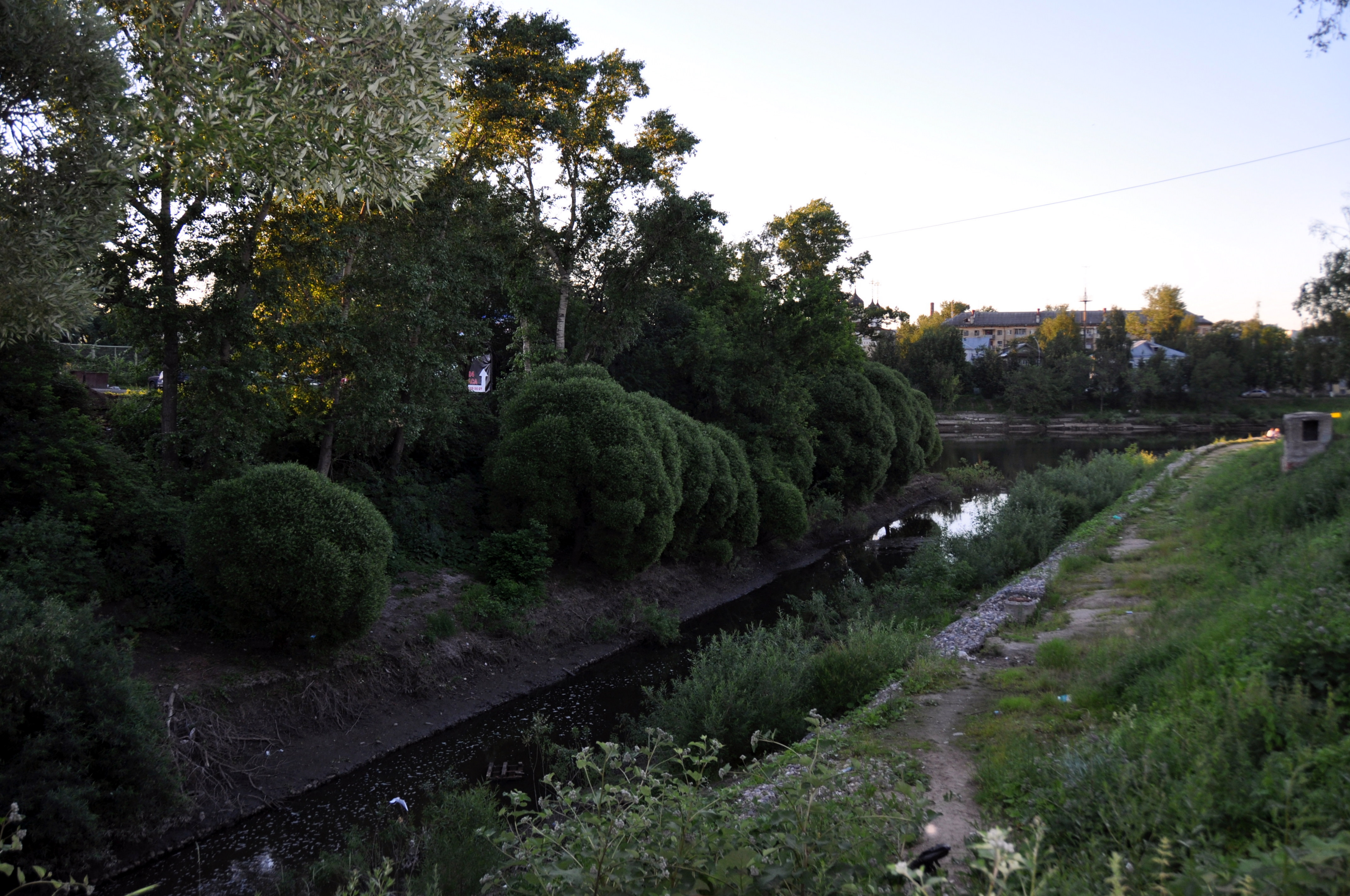 Zolotukha river in Vologda